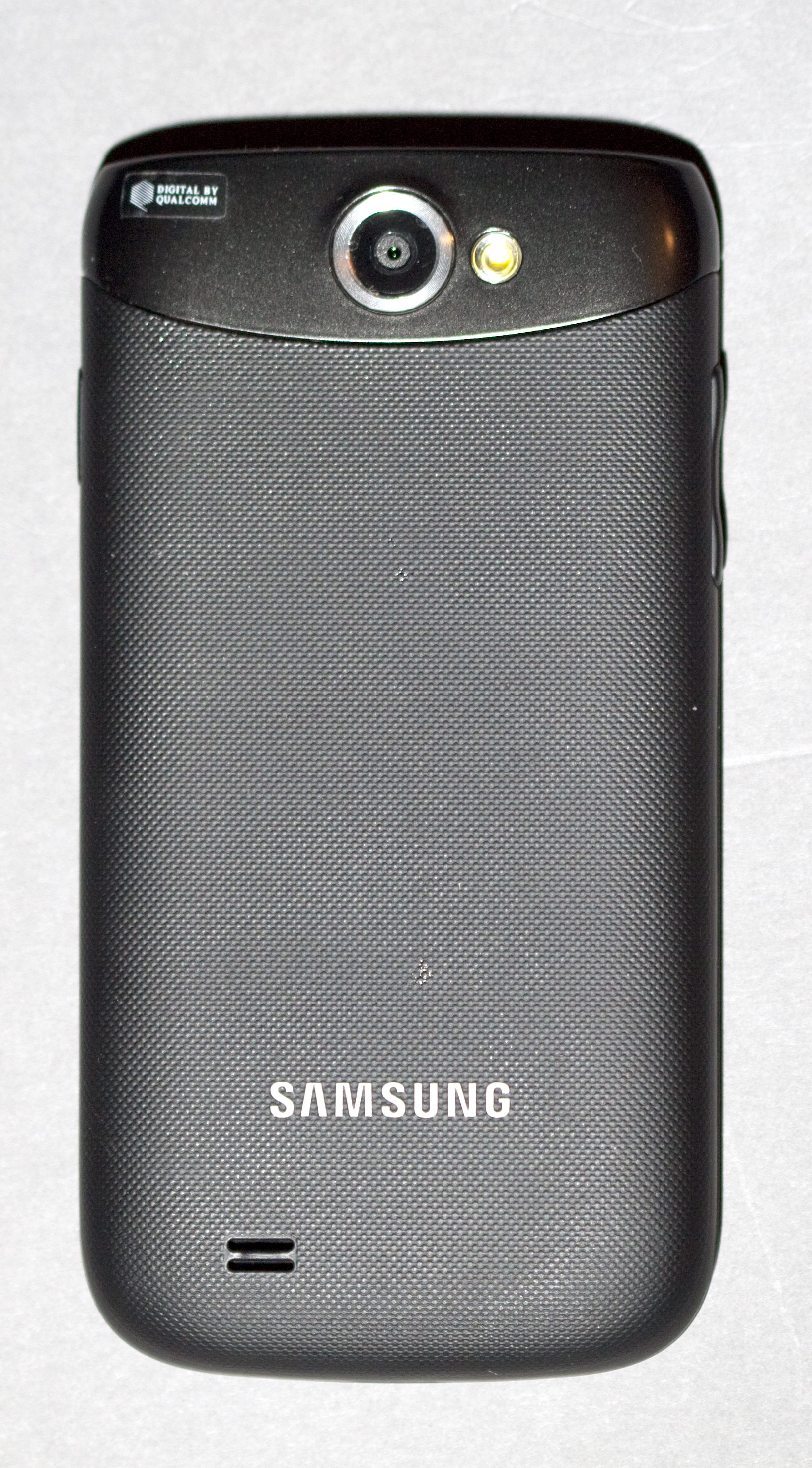 see filename. Taken with Canon EOS 500D + Canon f2.8/100mm macro